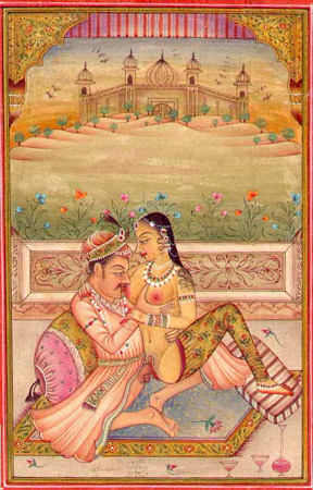 Kama Sutra Illustration